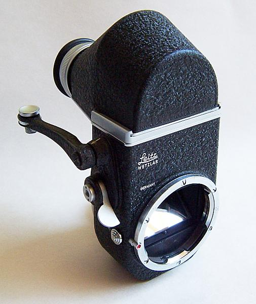 Leica Visoflex II of 1960, a mirror box attachment for Leica Thread Mount (LTM) rangefinders, or for M-bayonet rangefinders: Leica M3 (1954), M2 (1958); also fits the M4 (1967), M6 (1980) "Classic" and MP (2003). Descendant of the 1935 PLOOT and Visoflex III mirror housings. Visoflexes convert rangefinders into Single Lens Reflex (SLR) cameras, the SLR design being preferrable for long focal length lenses (greater than 135mm) and macrophotography. The Visoflex III with instant-return mirror followed in 1964 and remained in the Leica catalogue until 1980. Photographed by: Rei Shinozuka, 9-11-2005, Kodak DX7440, GIMP photo software.